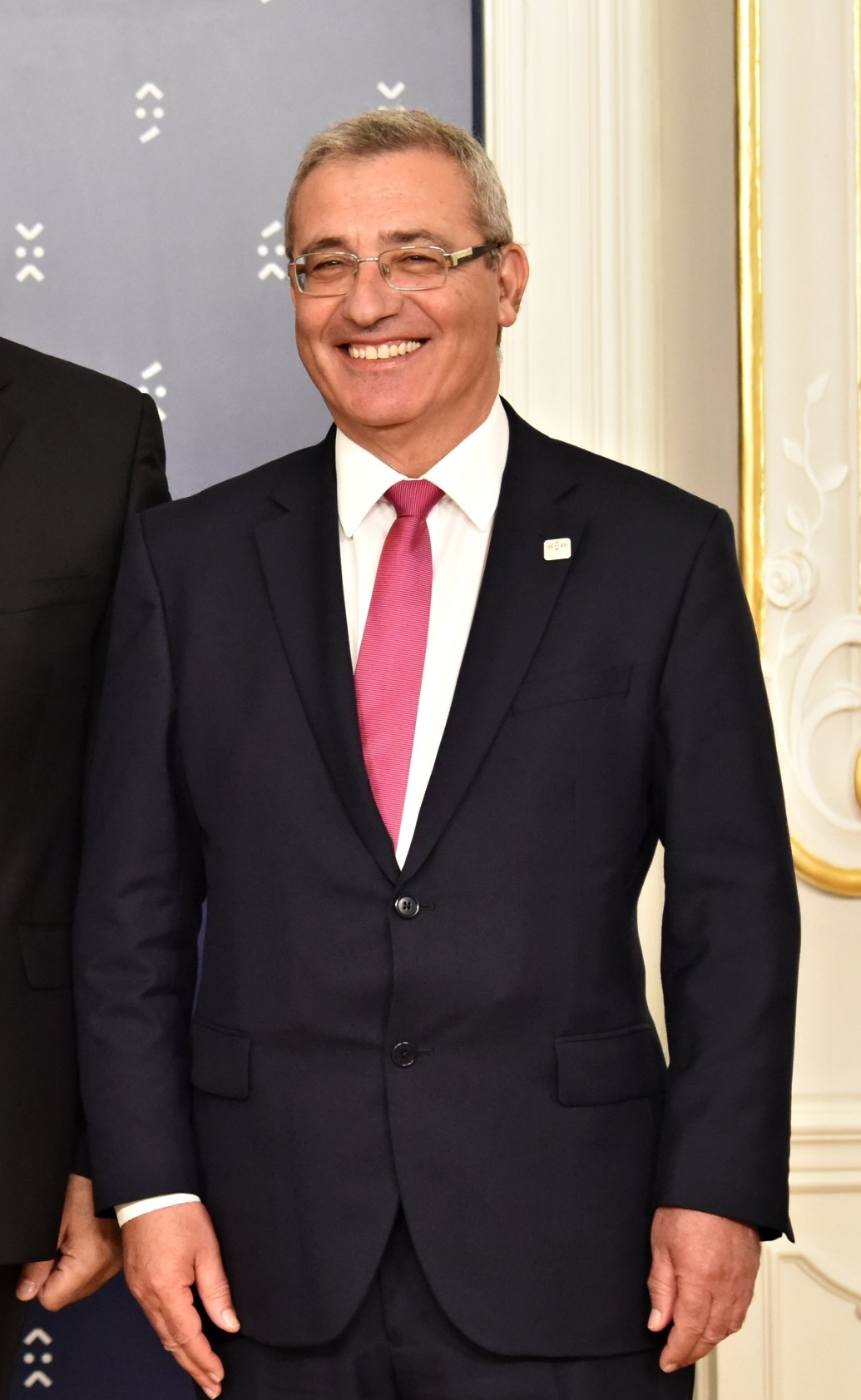 Malta, Mr. Evarist Bartolo, Minister for Education and Employment Informal Meeting of Ministers for Employment and Social Policy Photo Halime Sarrag